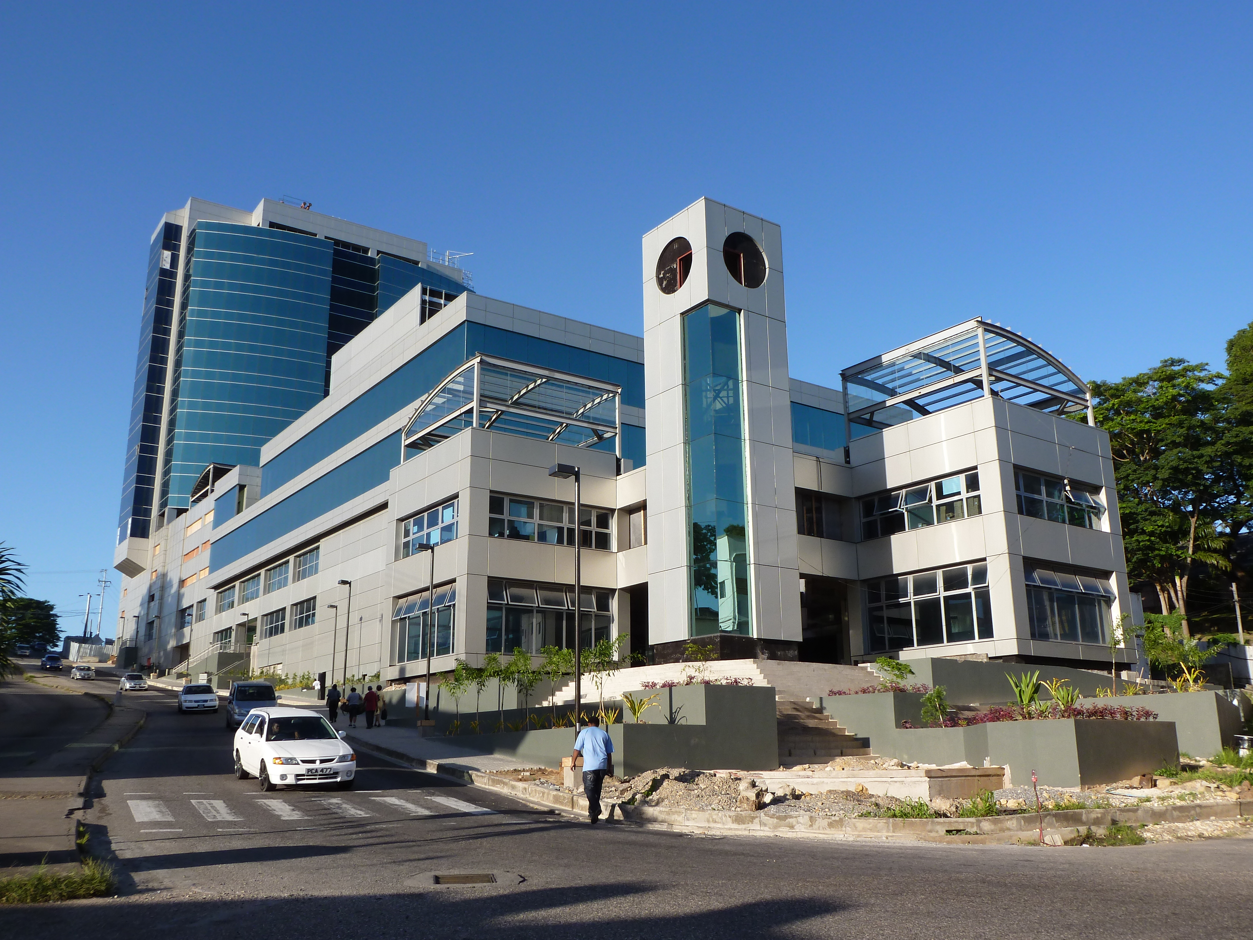 The Chancery Lane extension to the old San Fernando General Hospital.